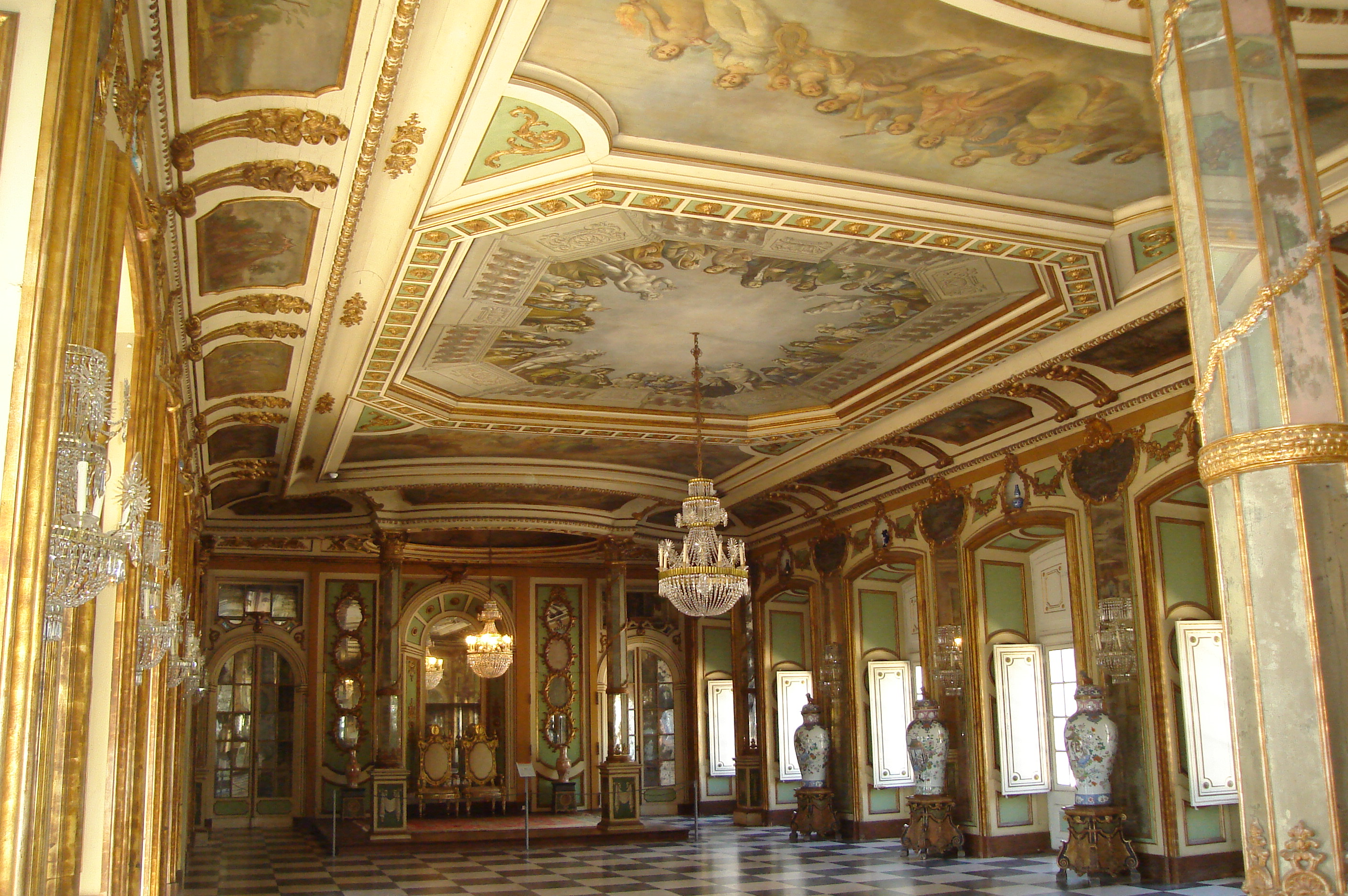 Queluz National Palace, Portugal